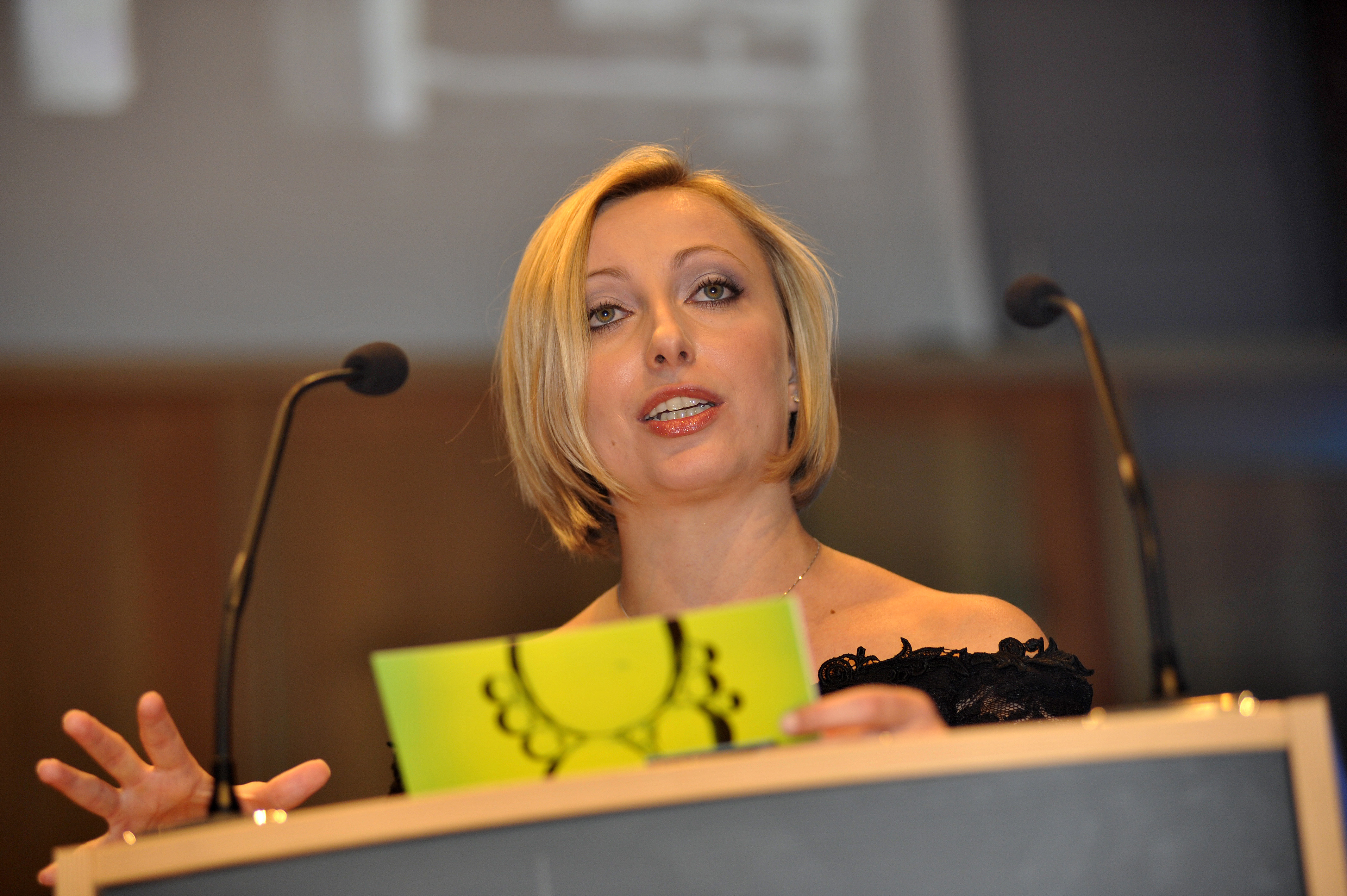 Francine_Lacqua presenting.